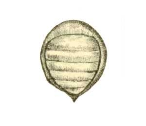 Eucalipt leafgall scale. Opisthoscelis subrotunda (Hemiptera: Eriococcidae)